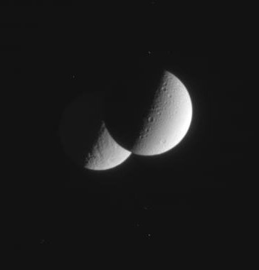 Occulation of Rhea by Dione as seen from Cassini-Huygens Mission